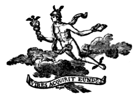 Logo of the Mercure de France as it was in 1812Latin text: Vires Acquirit Eundo (We gather strength as we go)